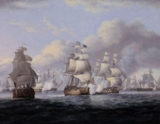 Painting by Thomas Luny of Cornwallis's Retreat, June 17, 1795. Painting has been cropped.